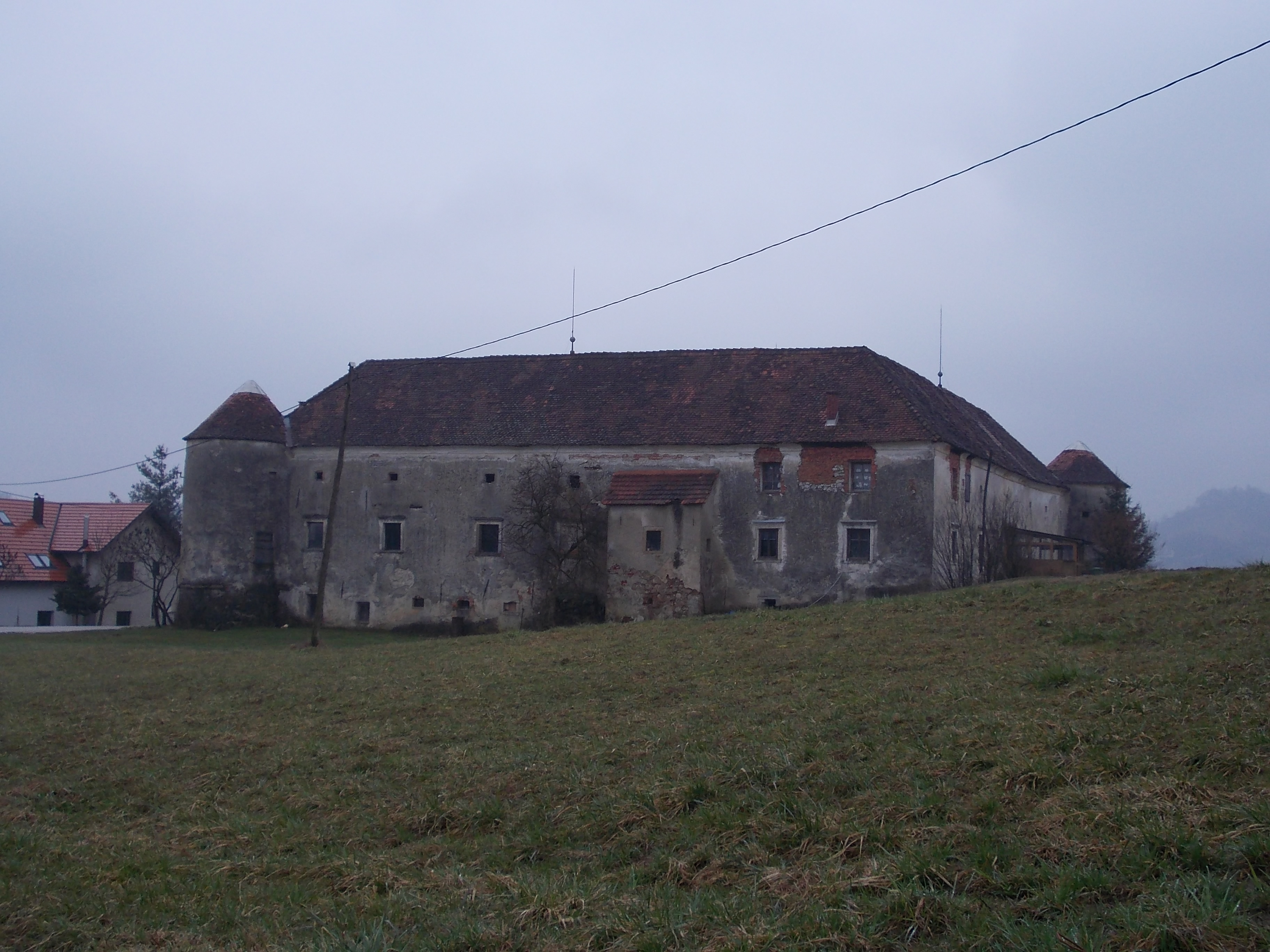 Pogled Manor